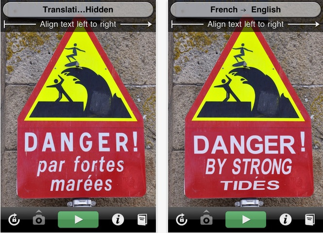 Screenshot of Word Lens translating French into English